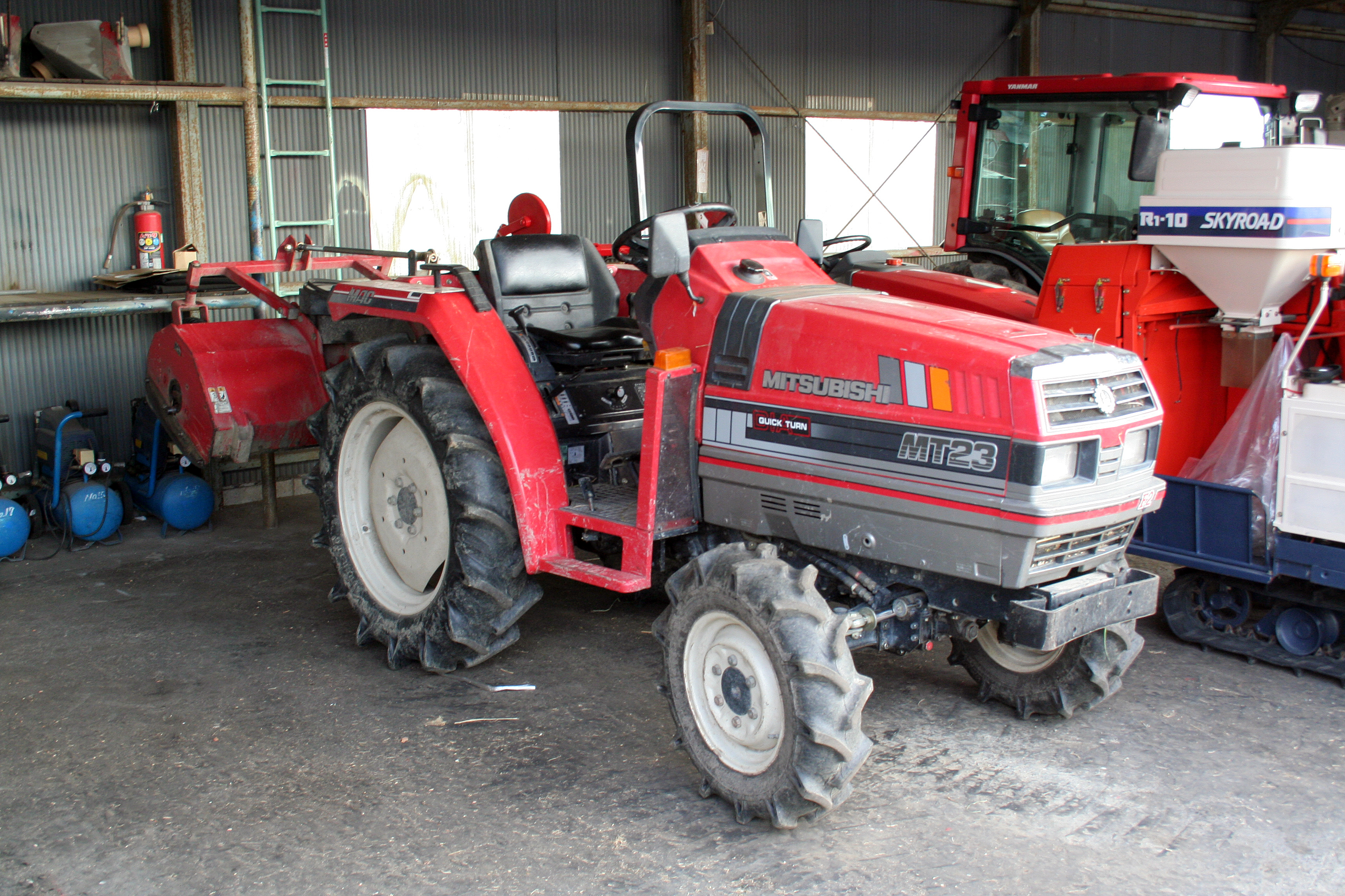 Mitsubishi tractor MT 23 and other machines somewhere in Japan